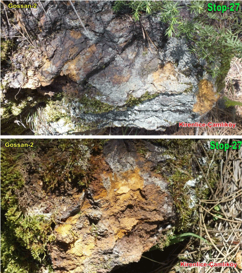 Gossan-2 is located approximately 1250 m in the south of Çamlıköy between Çamlıköy and Kirenlice. Orientation of this gossan measured is EW. The gossan is within metamorphics of Akgöl Formation. 1 km to the south exists Elekdağı thrusting. Limonitization and hematitization are very marked along this gossan